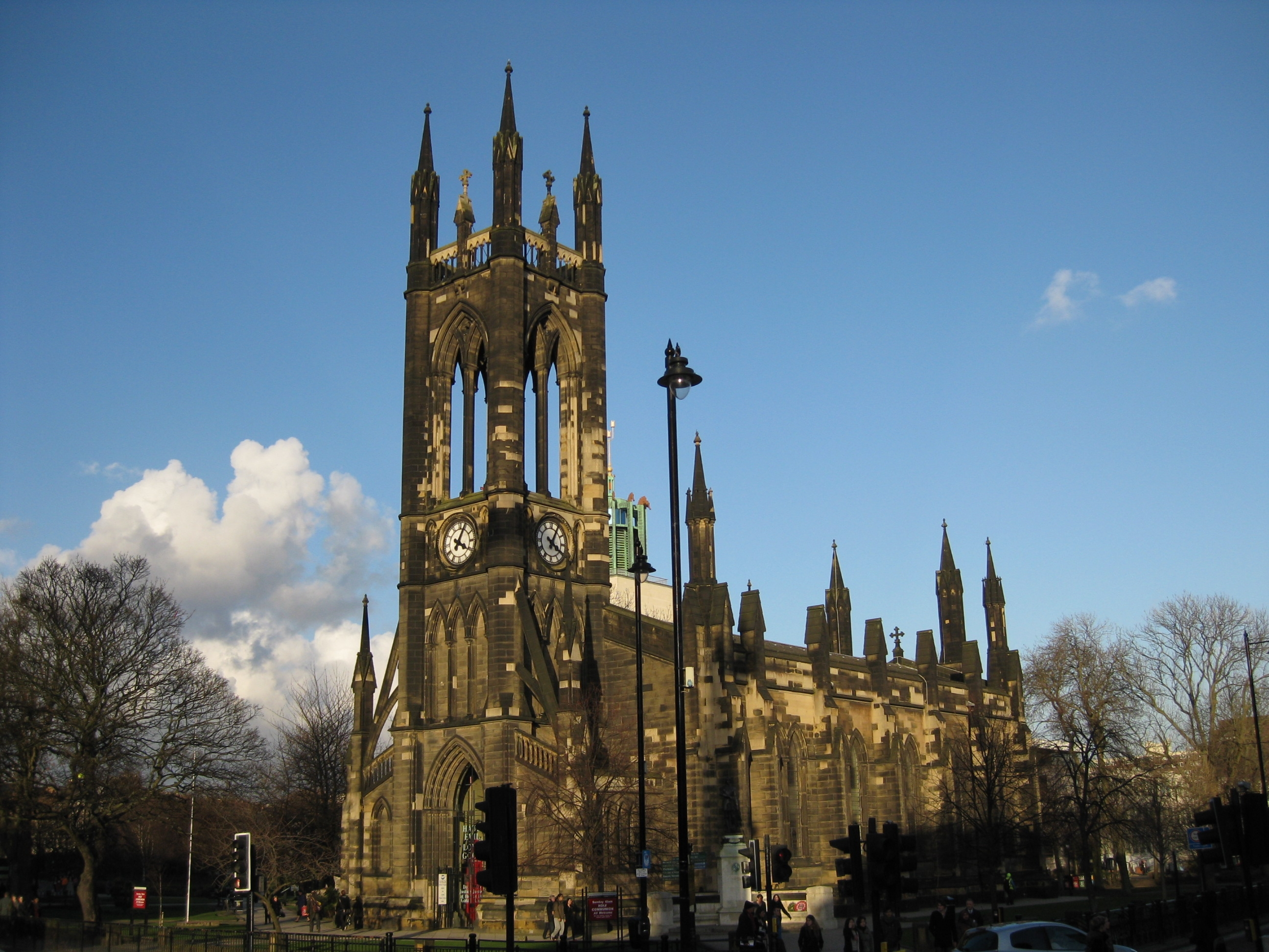 Church of St Thomas the Martyr (Thomas Becket), in the Haymarket area of Newcastle upon Tyne. Completed 1830. Architect John Dobson. Grade II* Listed Building